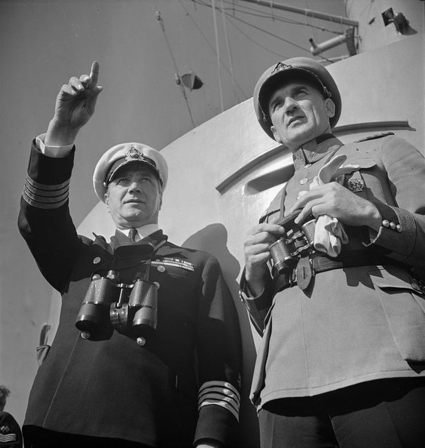 Commodore Eero Rahola represents the situation for the commander of the navy, general Väinö Valve.